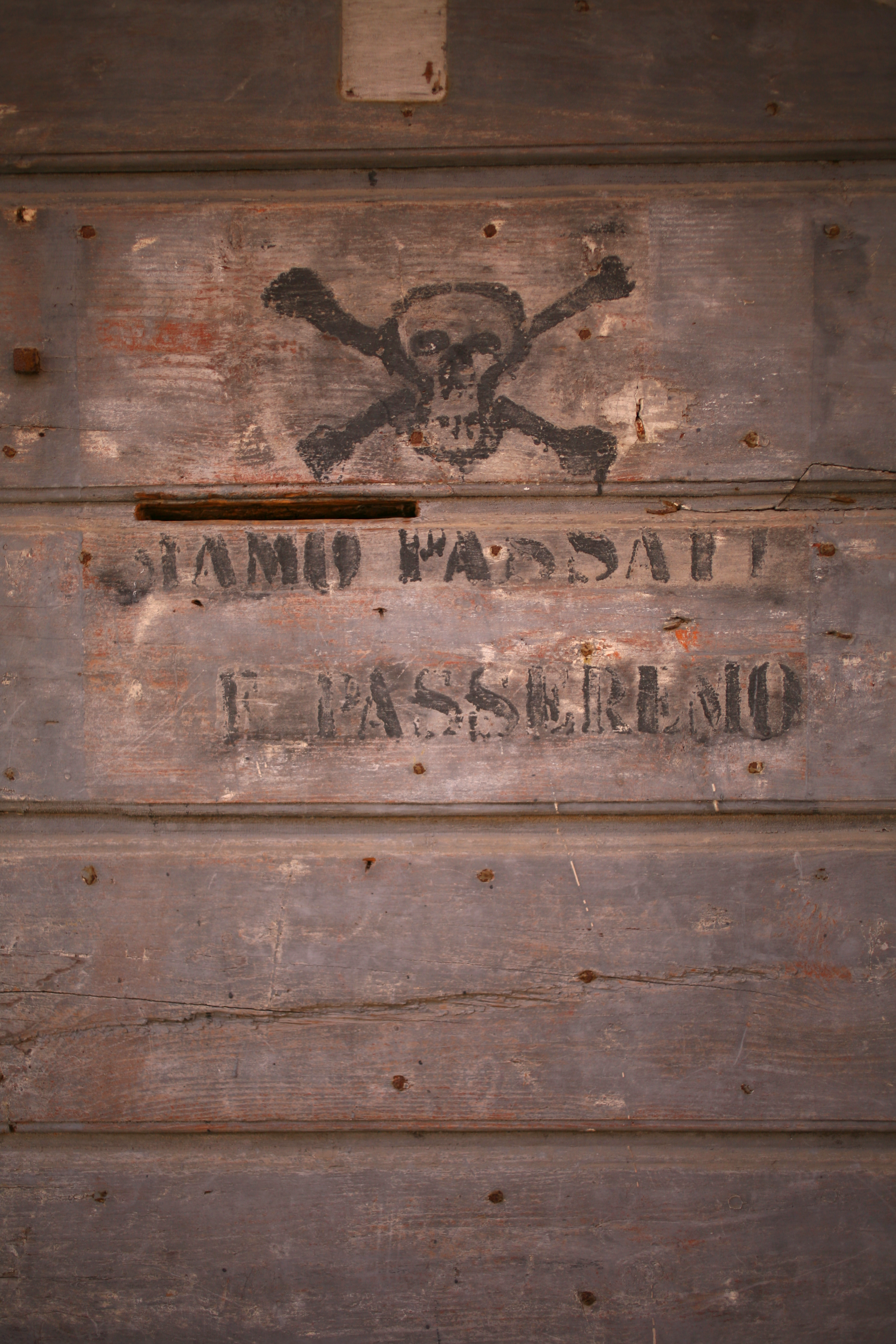 "Siamo passati e passeremo", fascist motto still present on a house door, 2014, Italy